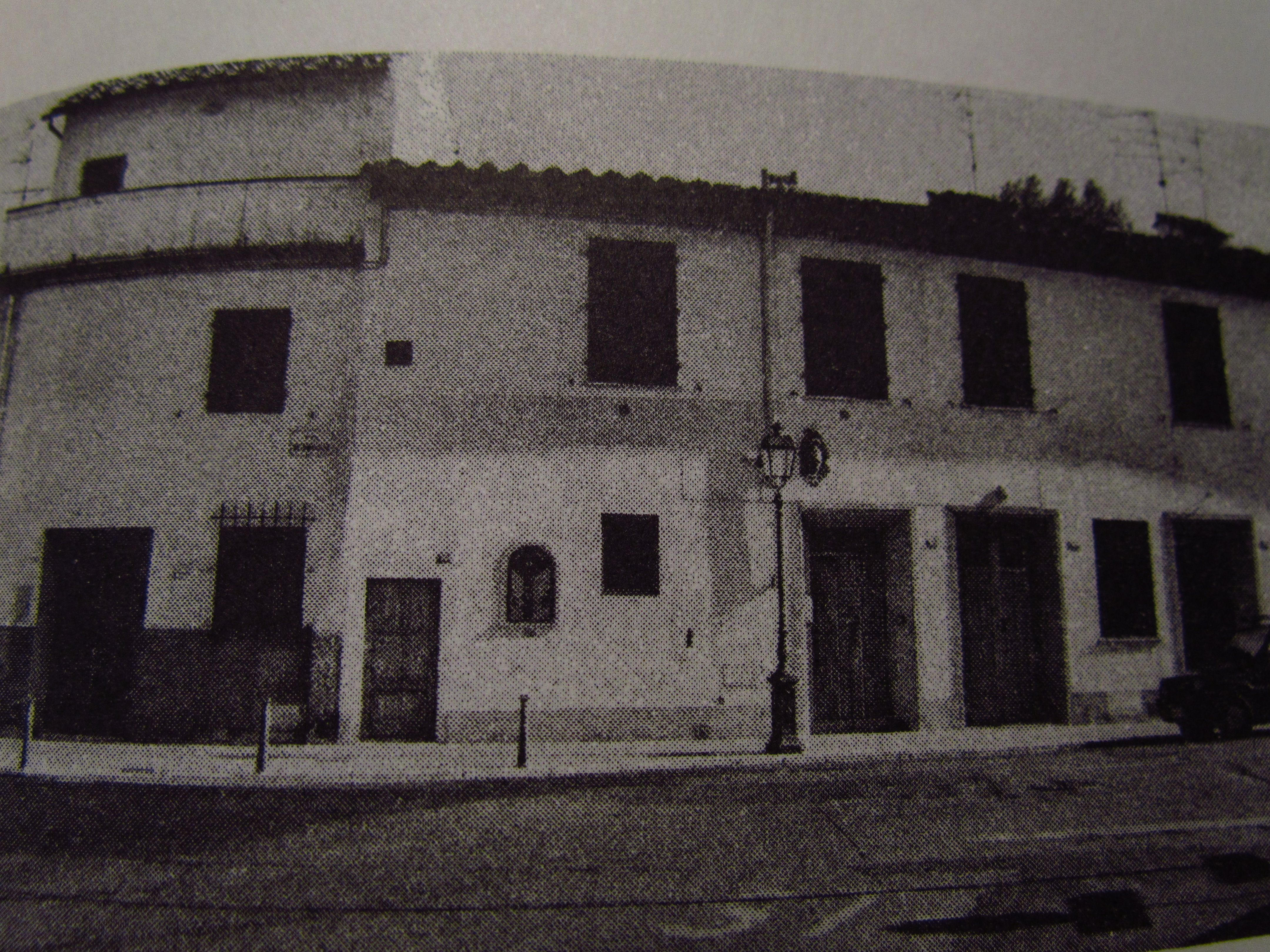 brozzi